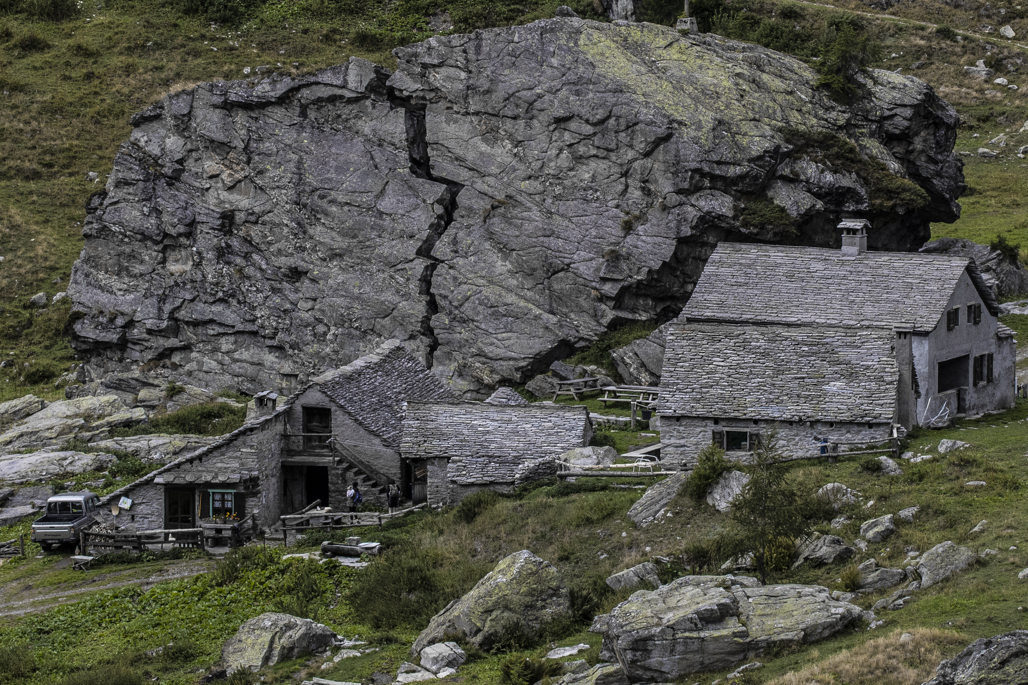 Roccia spezzata all'Alpe Veglia